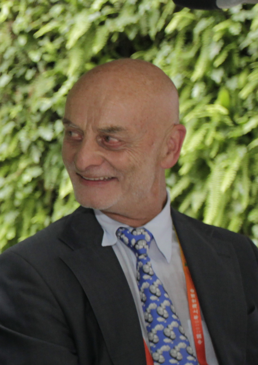 Uli Sigg, on the chair lift of the Swiss Pavilion Expo 2010 Shanghai.